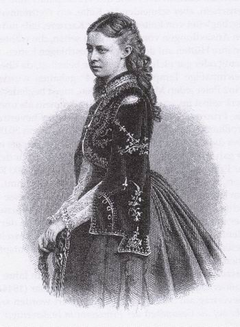 Therese Leichtenberg,nee Oldenburg (1852-1883)